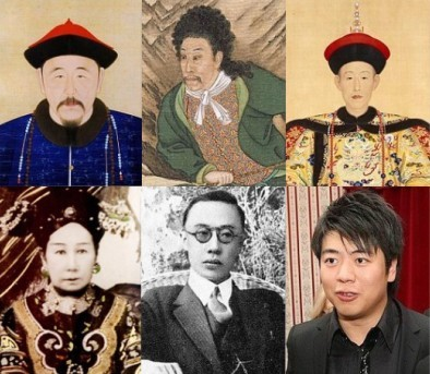 Notable Manchu people, using on several languages of Wikipedia because some people do not have articles in all languages